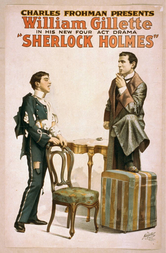 1900 poster for Sherlock Holmes by William Gillette.